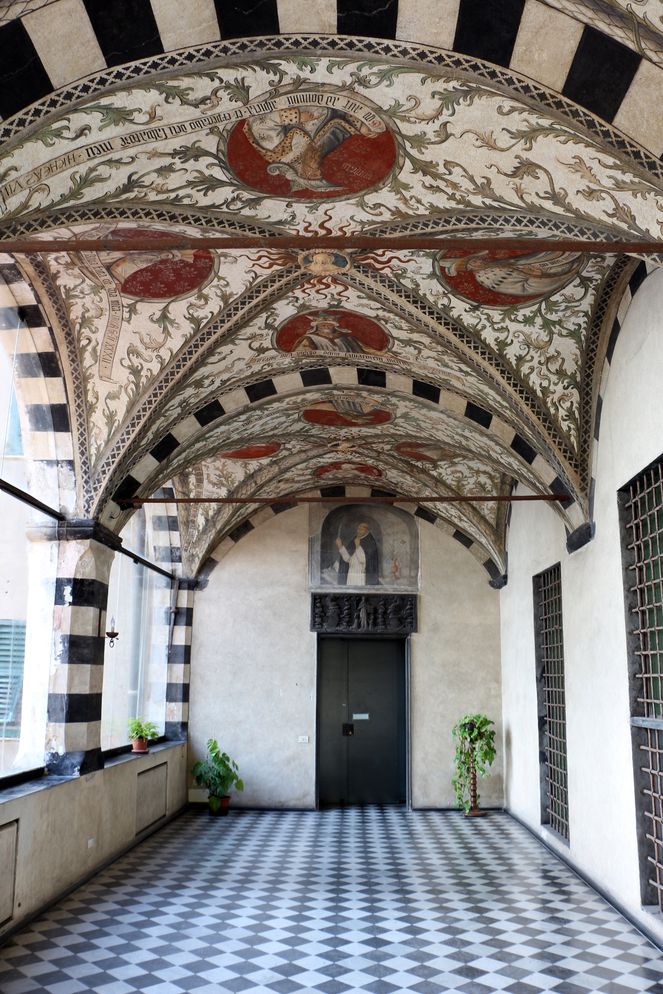 Santa Maria di Castello (Genoa) - Convent